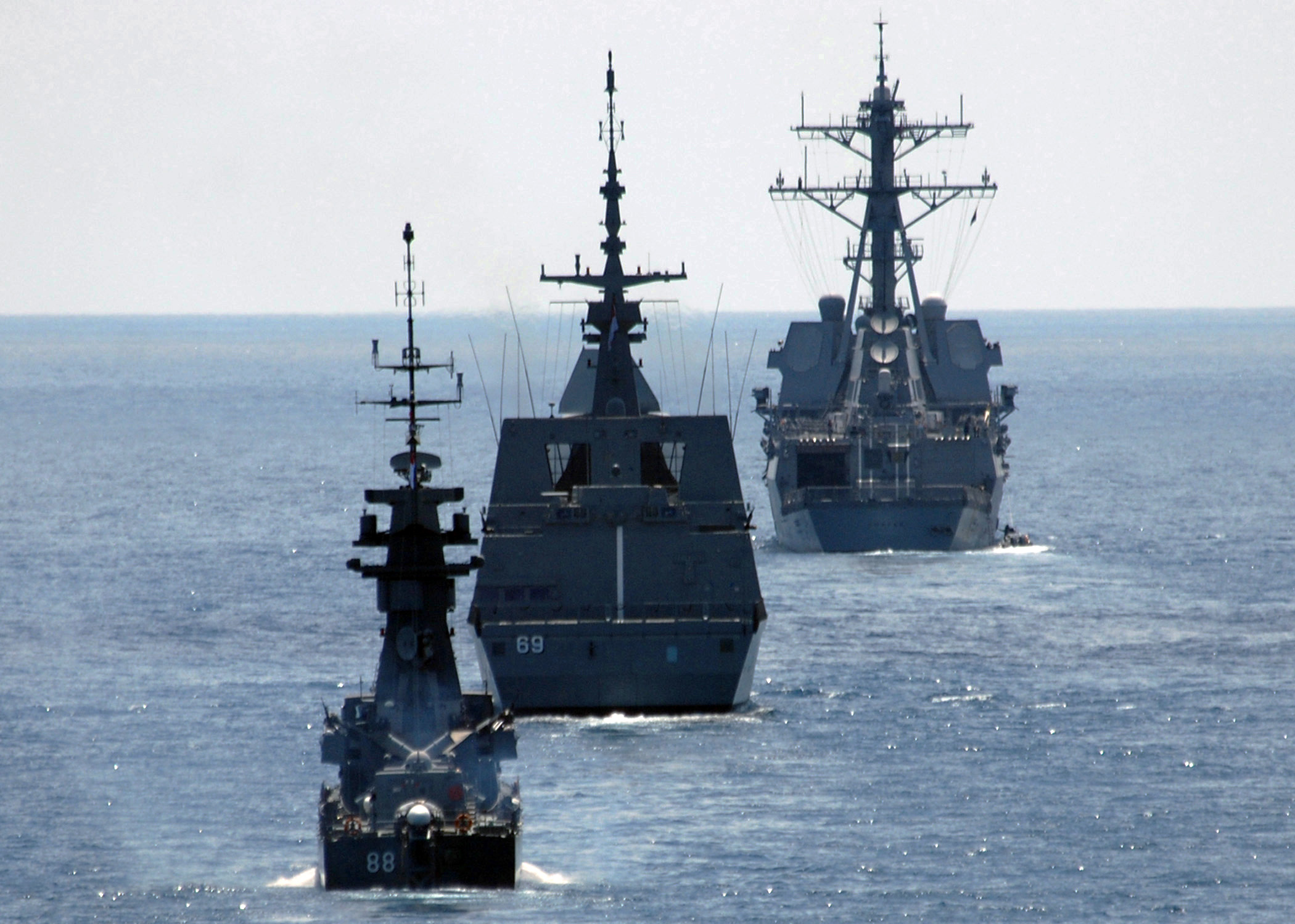 090612-N-5207L-106 SOUTH CHINA SEA (June 12, 2009) The Republic of Singapore Navy corvette RSS Victory (88) maneuvers in formation with the frigate RSS Intrepid (69) and the U.S. Navy guided-missile destroyer USS Chafee (DDG 90) in preparation for a surface gunnery exercise during Cooperation Afloat Readiness and Training (CARAT) 2009. CARAT is a series of bilateral exercises held annually in Southeast Asia to strengthen relationships and enhance the operational readiness of the participating forces. (U.S. Navy photo by Mass Communication Specialist 1st Class Bill Larned/Released)